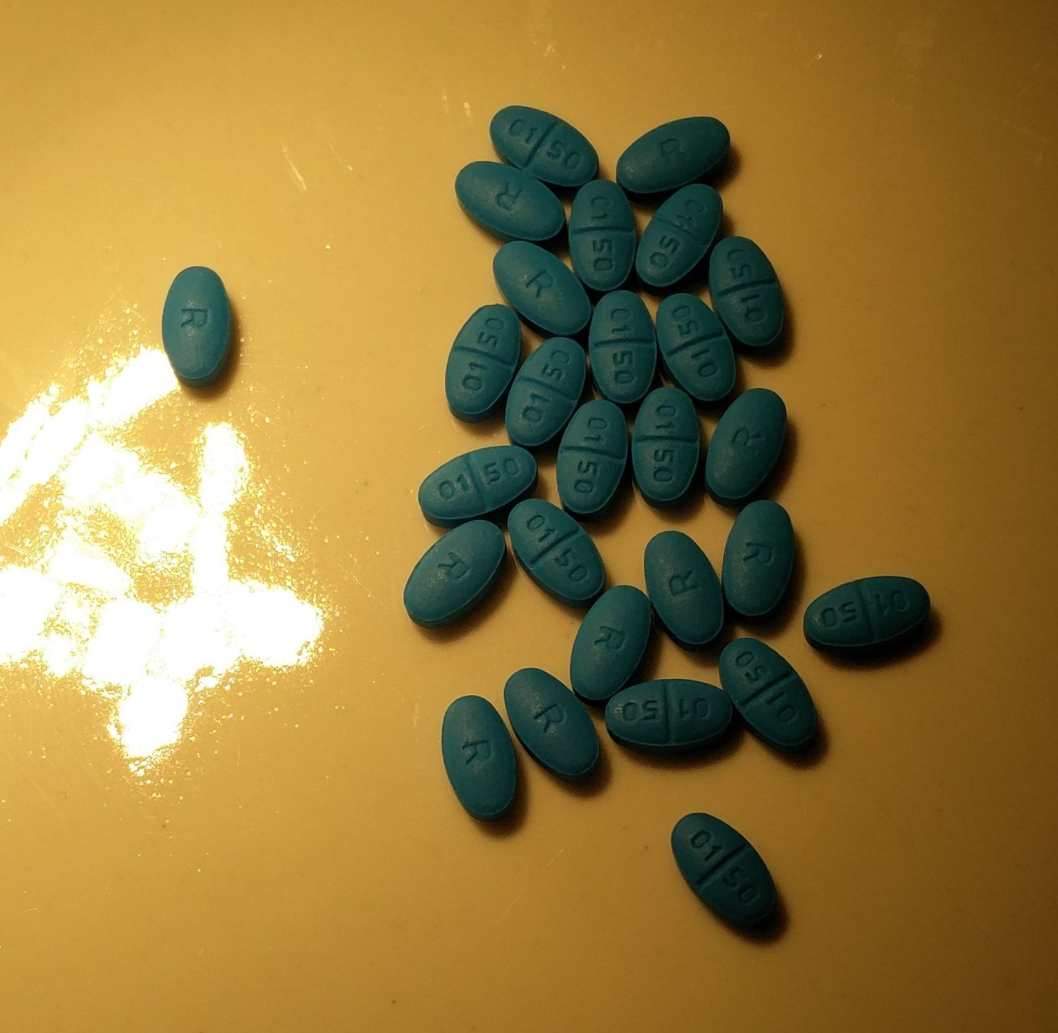 10 mg fluoxetine pills. These here are cut in half daily at the beginning of a new therapeutic regimen and the dosage doubled in seven or eight days.